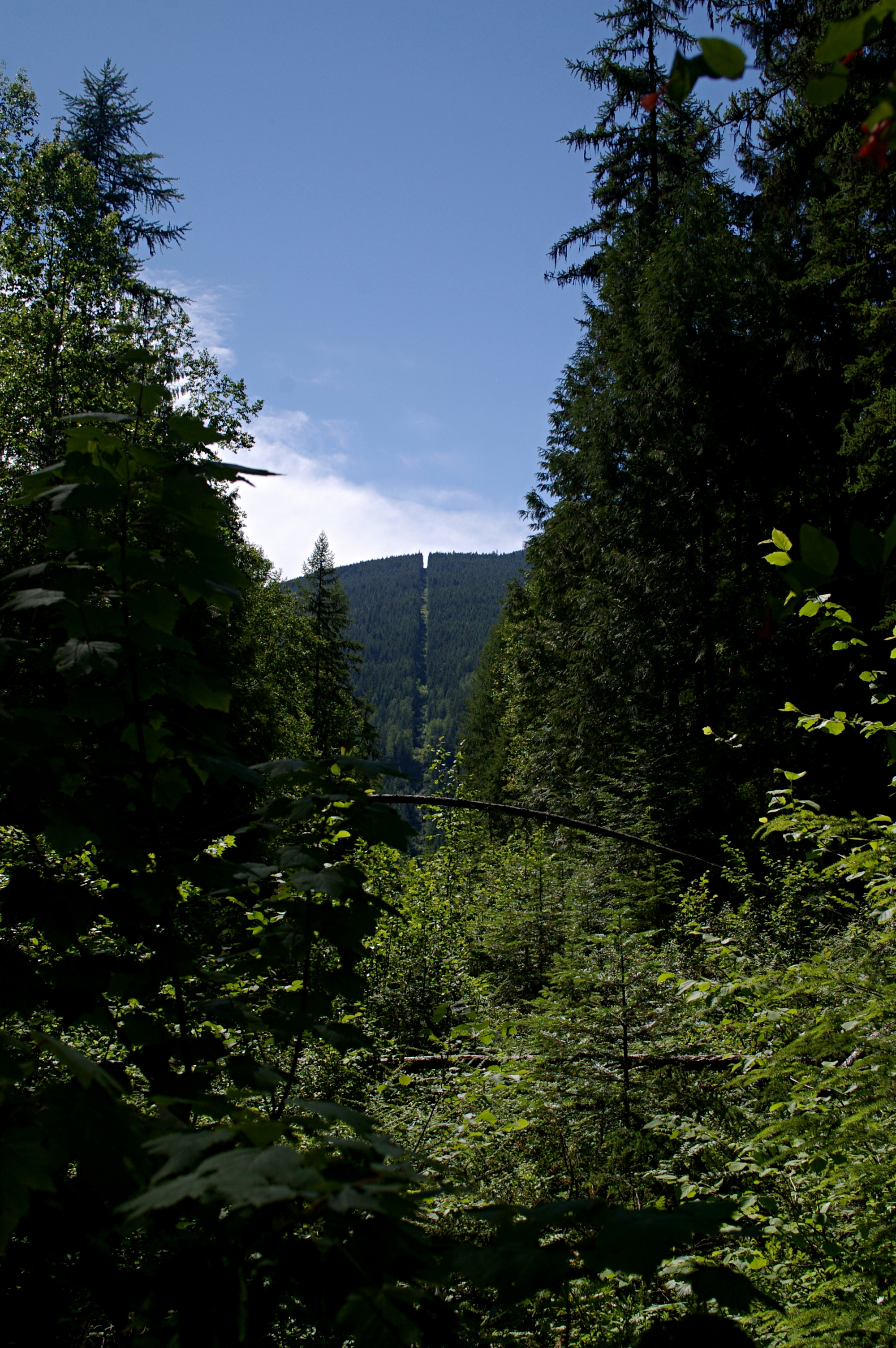 The border clearing between the United States and Canada at Crawford State Park. The clearing runs from the Pacific Ocean to Lake Superior.